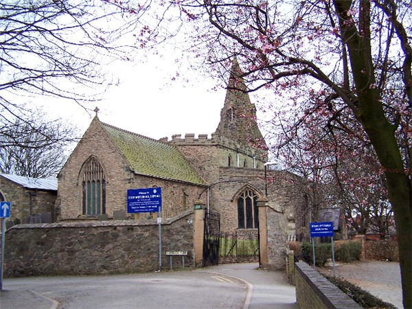 Shepshed Parish church taken by kev747